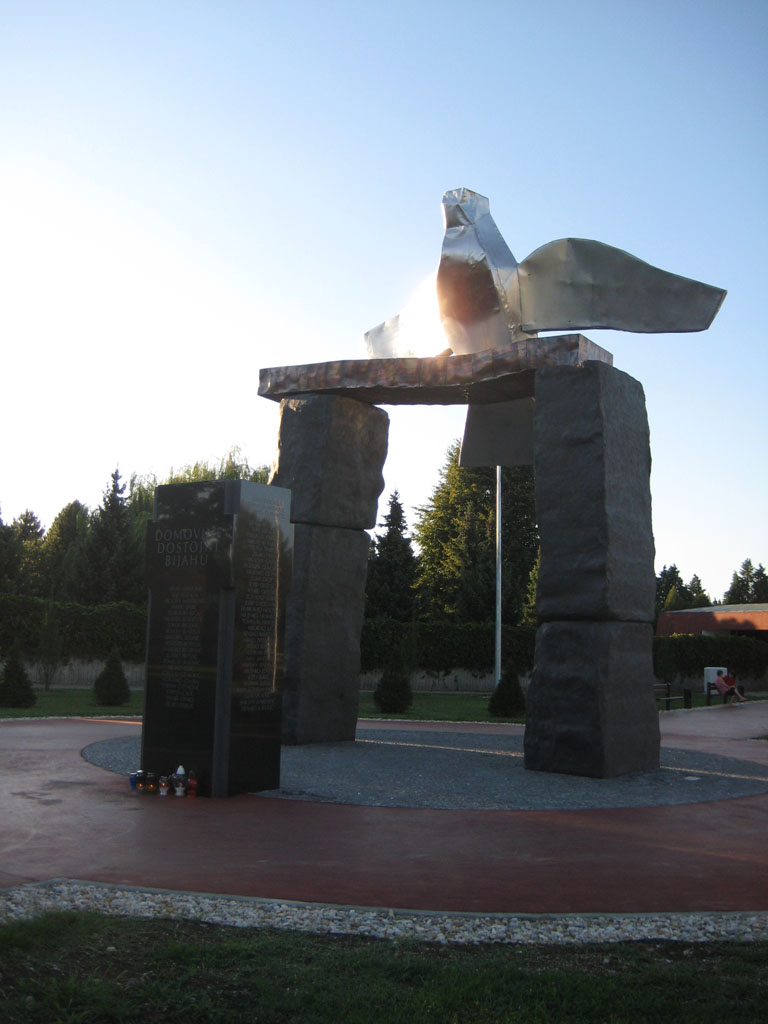 Spomenik poginulim braniteljima